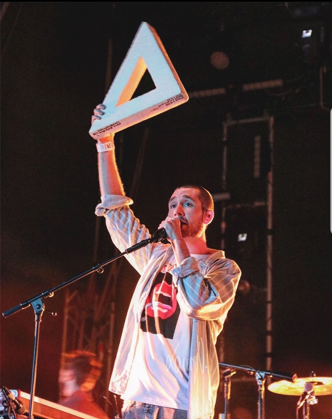 Dan Smith performing with Bastille at Strand Festival in 2019